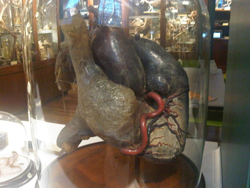 African Bush Elephant (Loxodonta africana) heart in Grant Museum of Zoology, London, England. An elephant's heart weighs between 20 and 30 kg and beats about 30 times a minute.